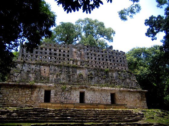 The best preserved temple in Yaxchilan with about half of its roof comb intact. But its fabulous lintel is now at the British Museum in London.